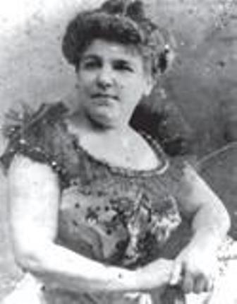 Amalia Paoli, soprano puertorriqueña nacida en Ponce, Puerto Rico